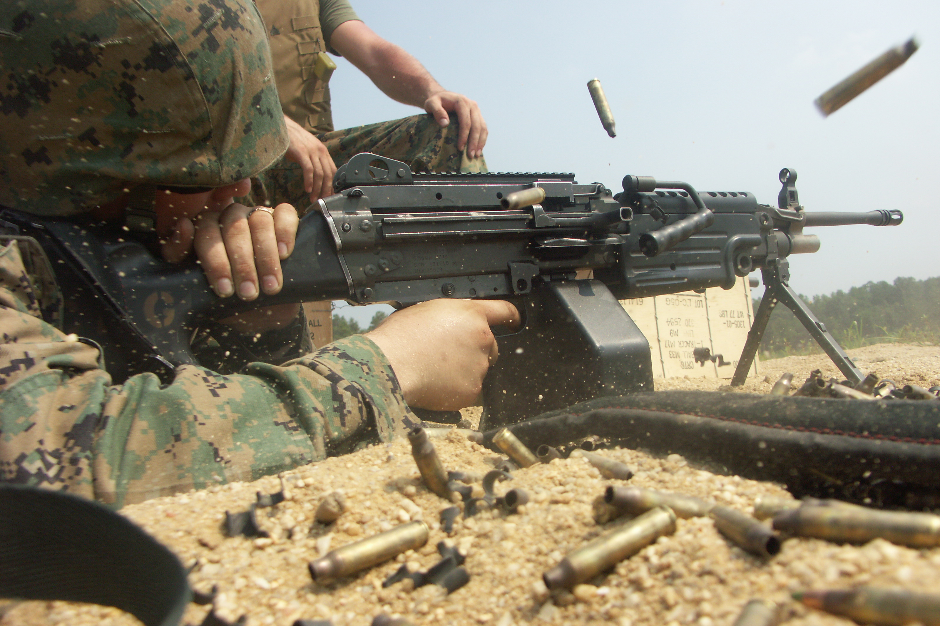 Summary FORT A.P. HILL, Va. - Cpl. John E. Long engages targets with an M-249 Squad Automatic Weapon during a live-fire exercise on the machine gun range at Fort A.P. Hill, Va. Firing weapons systems, everything from the .50 caliber heavy machine gun to the Squad Automatic Weapon light machine gun, was important during training to give Marines an understanding of the function and relevance of these weapons. Photo by: Pfc. Chokechai Vayavananda Photo ID: 2006726161034 Submitting Unit: Marine Forces Reserve Photo Date:07/20/2006